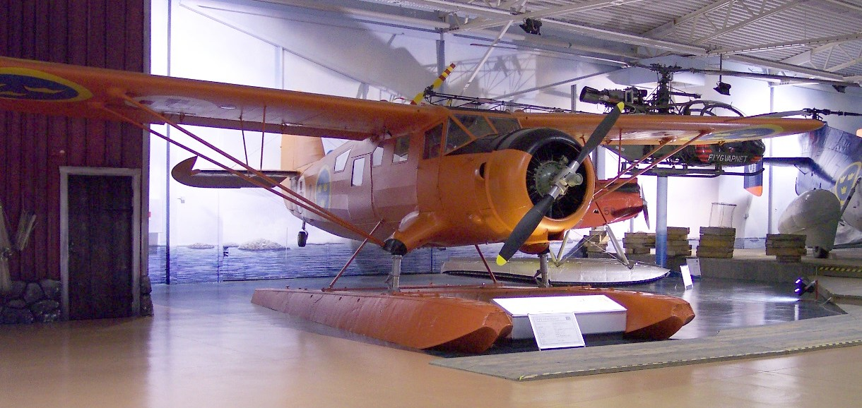 Noorduyn C-64 Norseman, Flygvapenmuseum (The Official Museum of the Swedish Air Force).